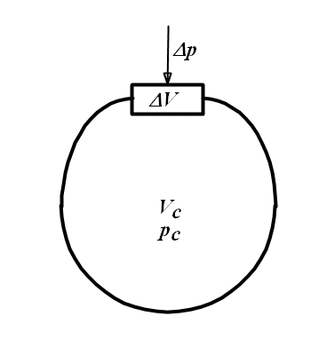 Description of the acouistic plasticity